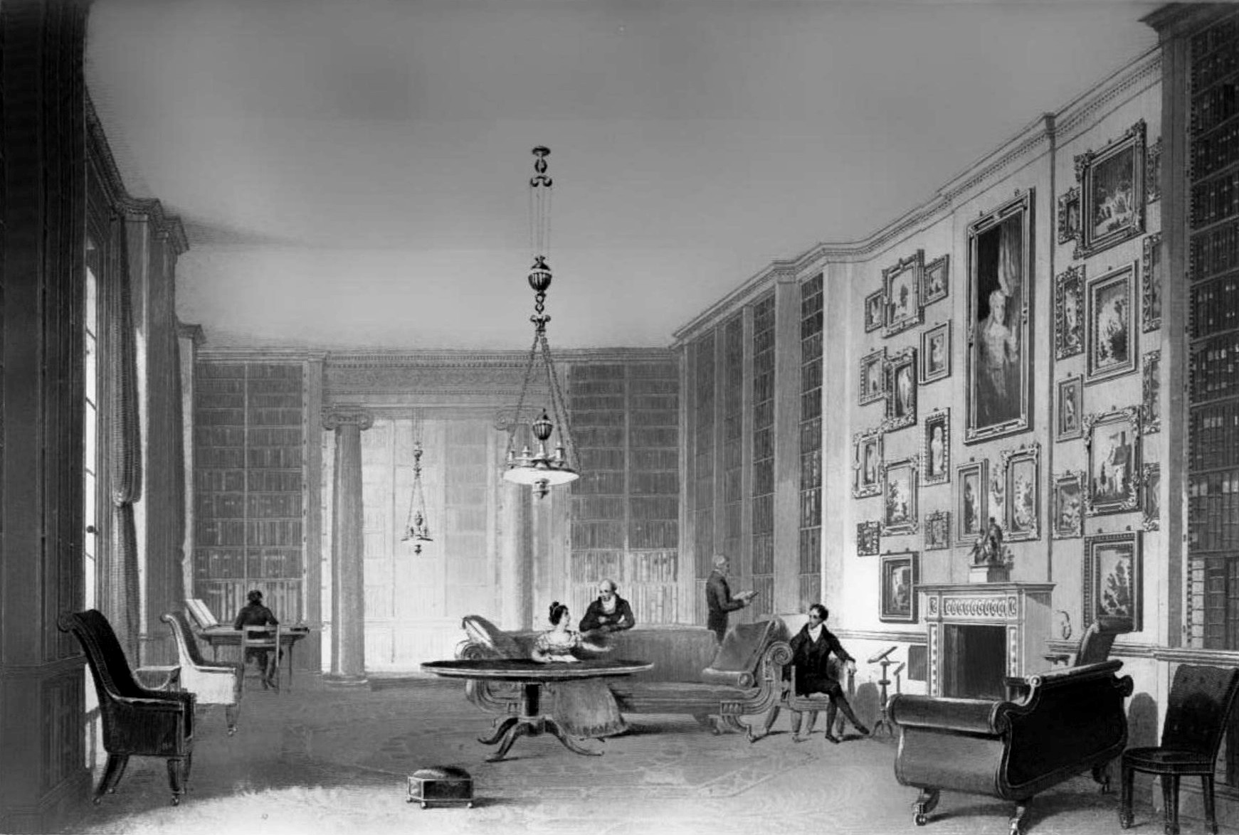 Illustration of The Long Library at Althorp House.